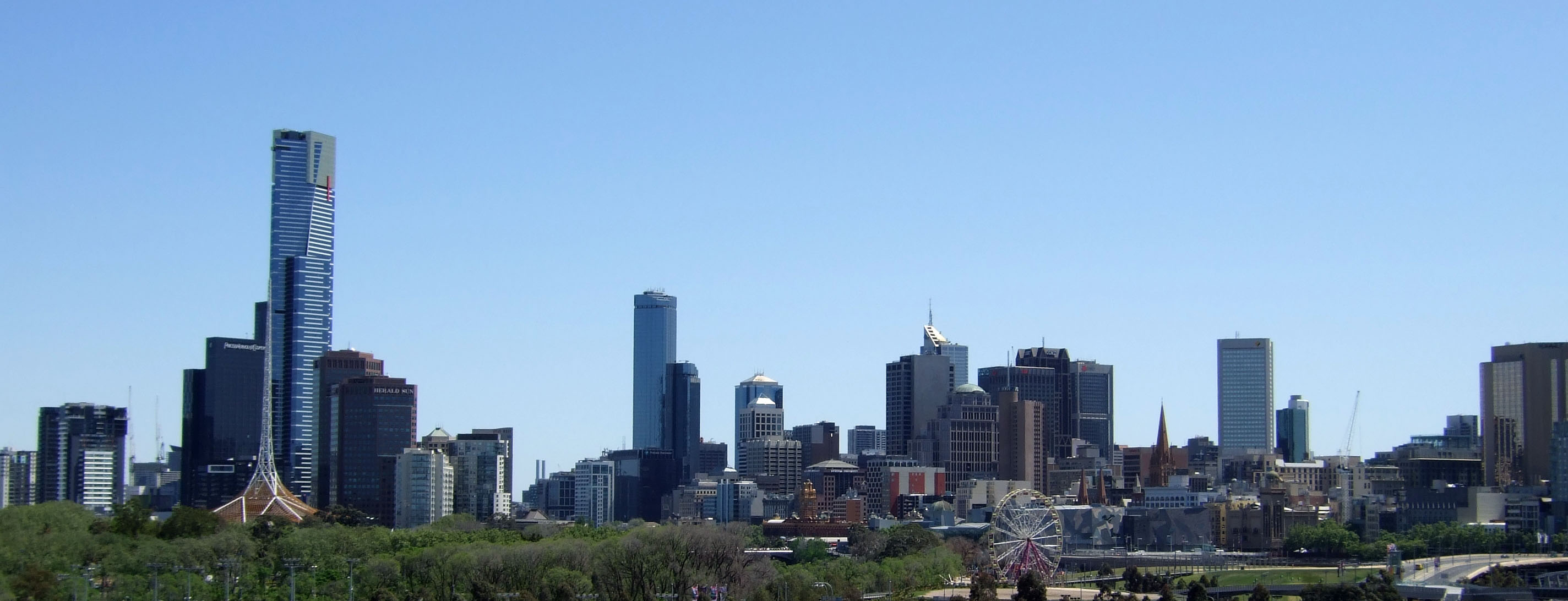 Melbourne